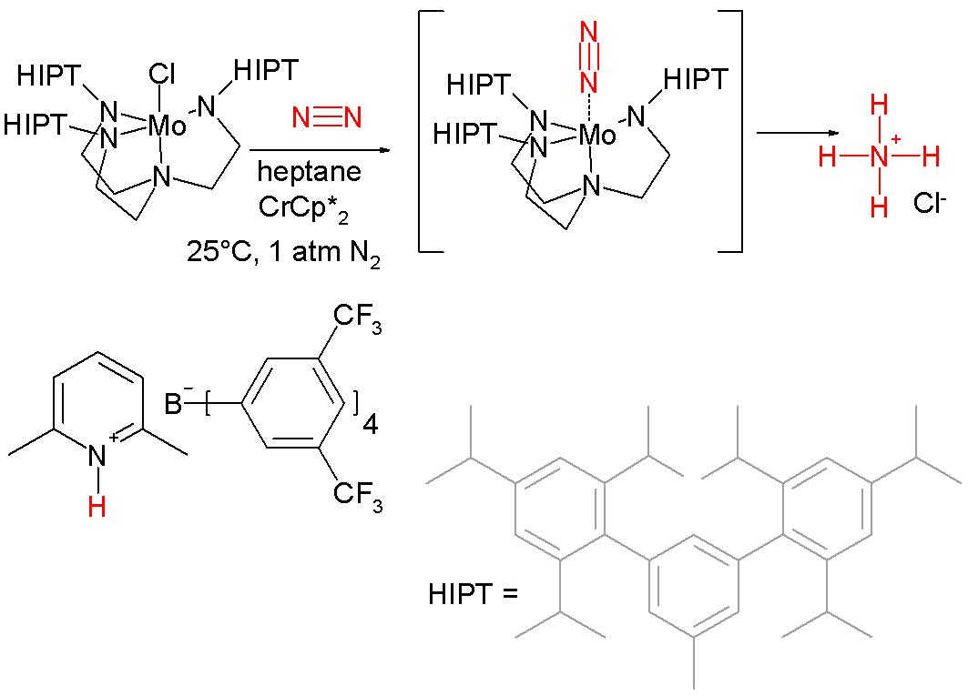 Nitrogen Reduction Schrock 2003